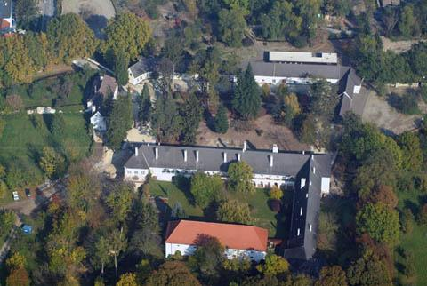 Lackenbach mansion, Burgenland, Austria, aerialphotography